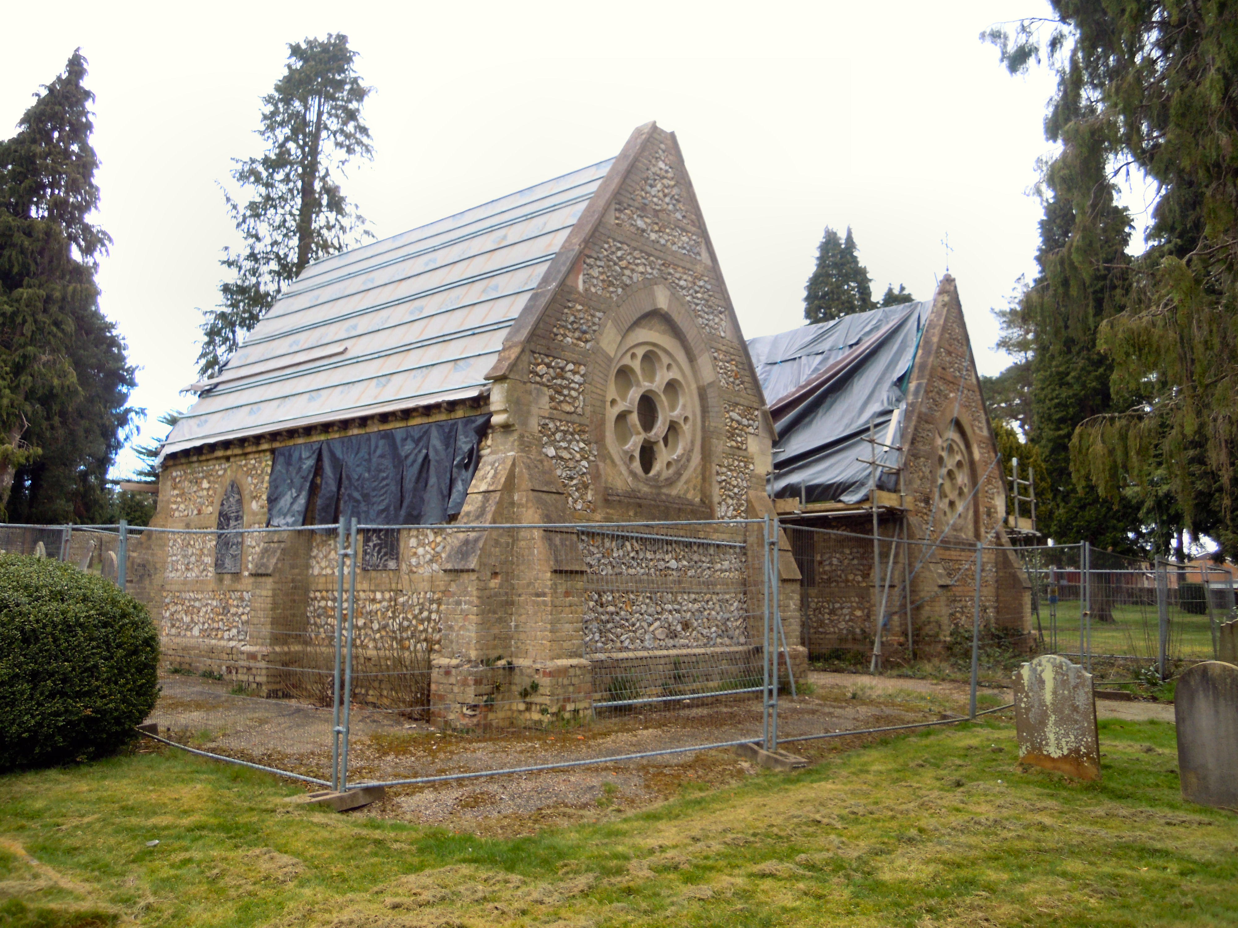 The derelict chapels at Hale Cemetery in Farnham undergoing renovation in 2020